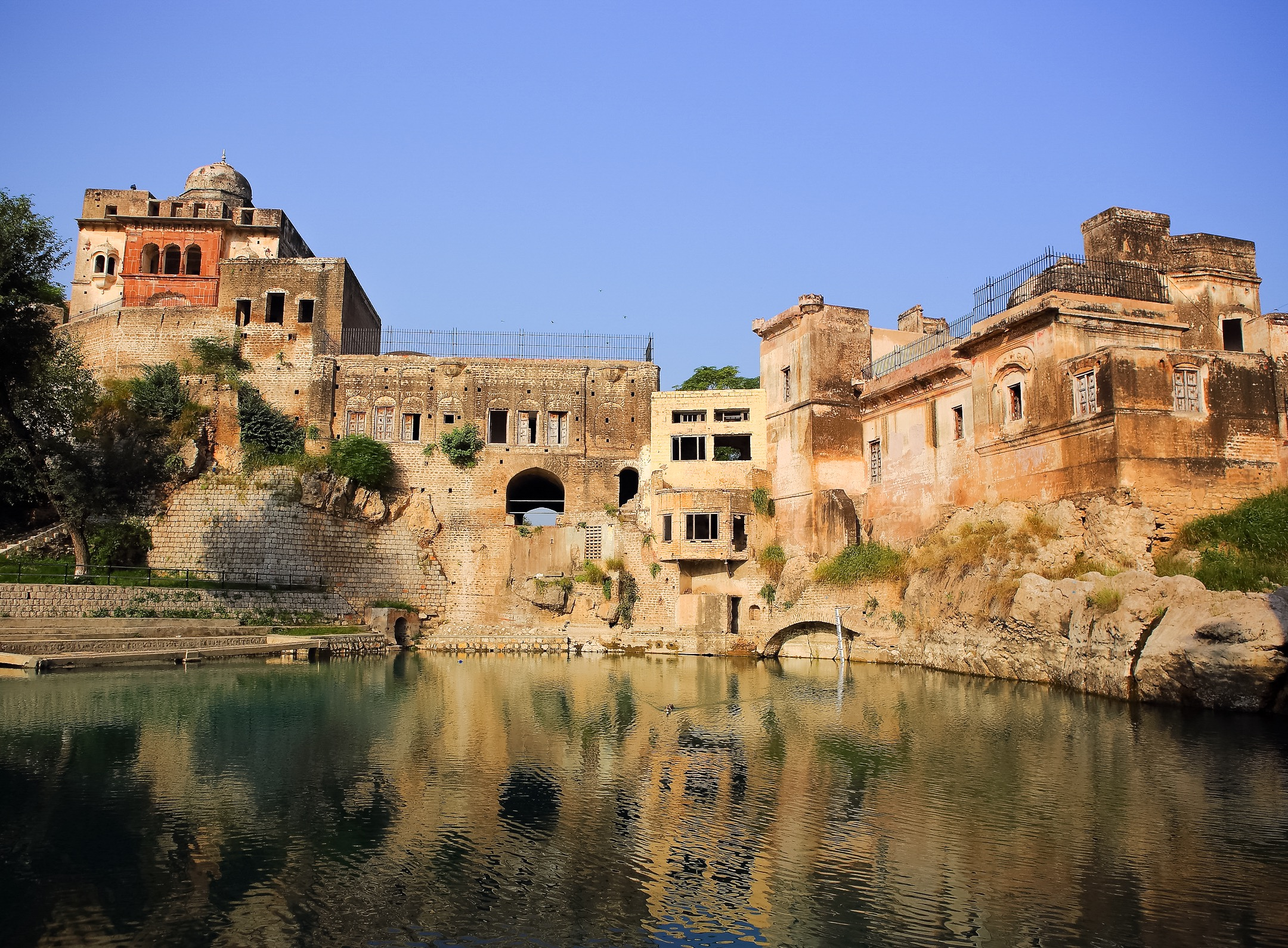 Satghara Temple This is a photo of a monument in Pakistan identified as the PB-38